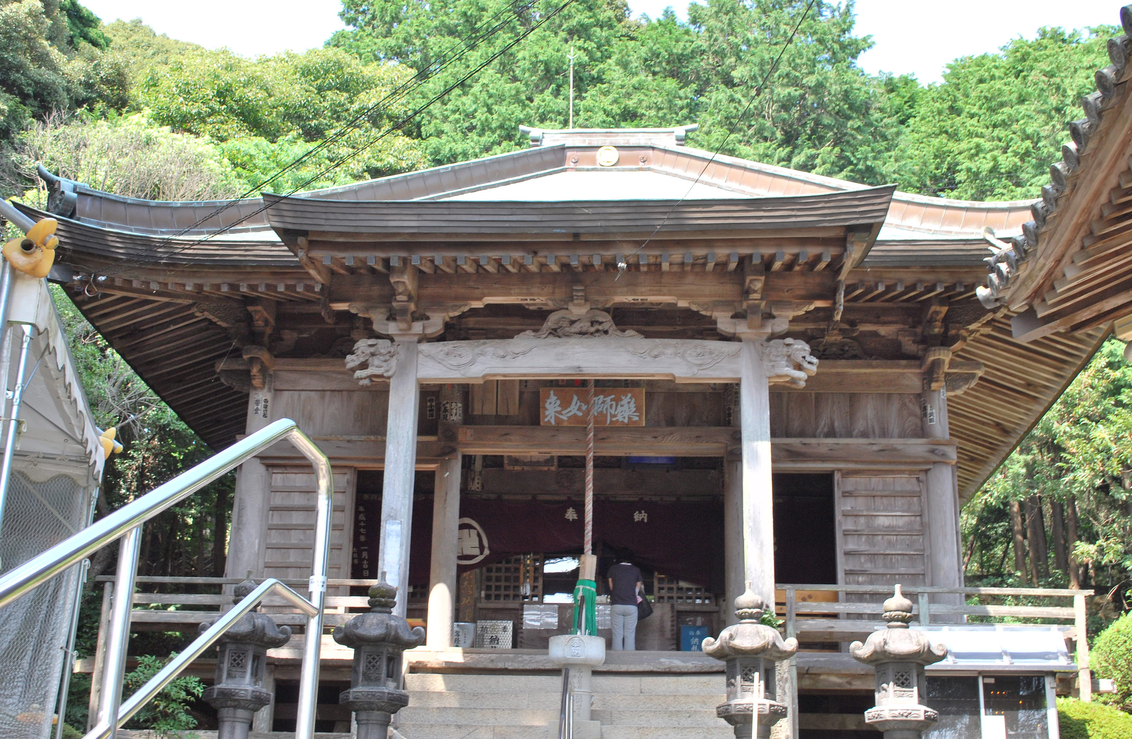 Main temple, Onzan-ji